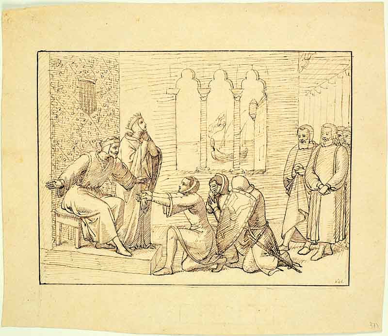 Pau Milà i Fontanals (Vilafranca del Penedès, 1810 - Barcelona, 1893), Preliminary Study for Sicilians in the presentation glove Corradino Peter III of Aragon (c.1850), brown ink and pencil on paper, 25,6 x 30,3 cm